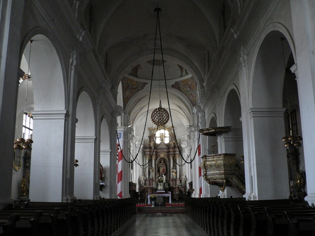 Stična Abbey (Slovenia). Church. Inside.